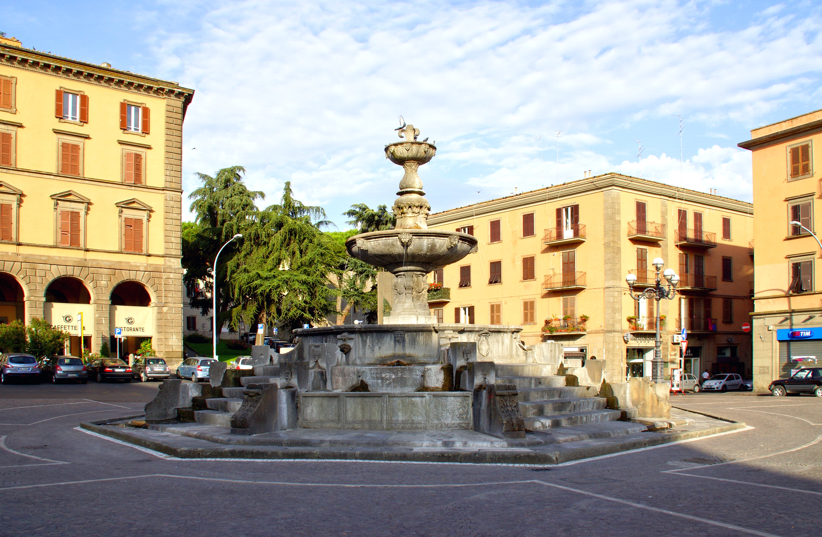 The first fountain in the center of Viterbo was built in the Middle Ages (estimated 10th - 13th century). At the same place in the 16th century was by architect Vignola the fountain "Fontana di Piazza della Rocca" created at the Piazza della Rocca on a larger scale. (Lazio, Italy) - Photo Wolfgang Pehlemann DSC00022